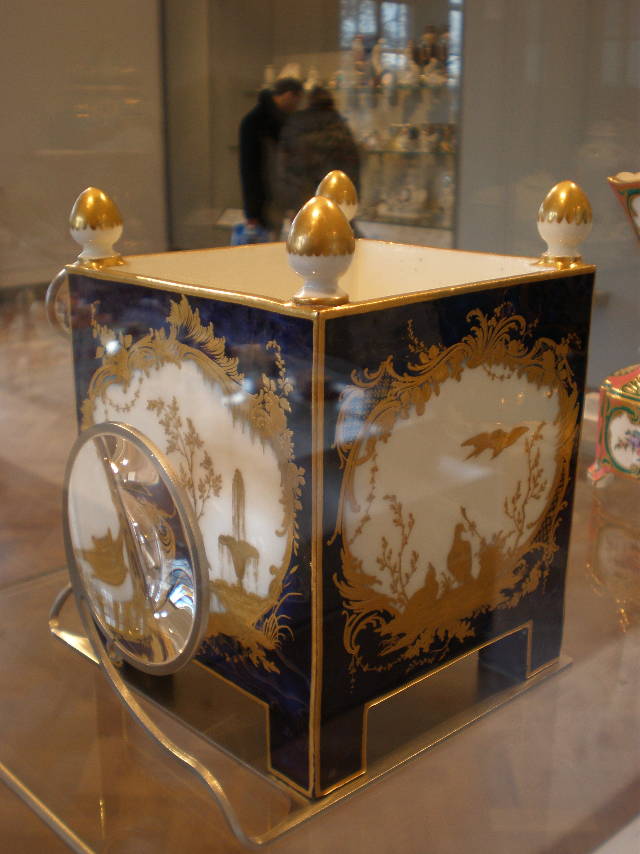 Plant Pot Vincennes about 1753 Jardiniere (plant pot), porcelain; Vincennes, France; 1750-1753. John Jones Bequest Collection ID: 750-1882 This photo was taken as part of Britain Loves Wikipedia in February 2010 by David Jackson.